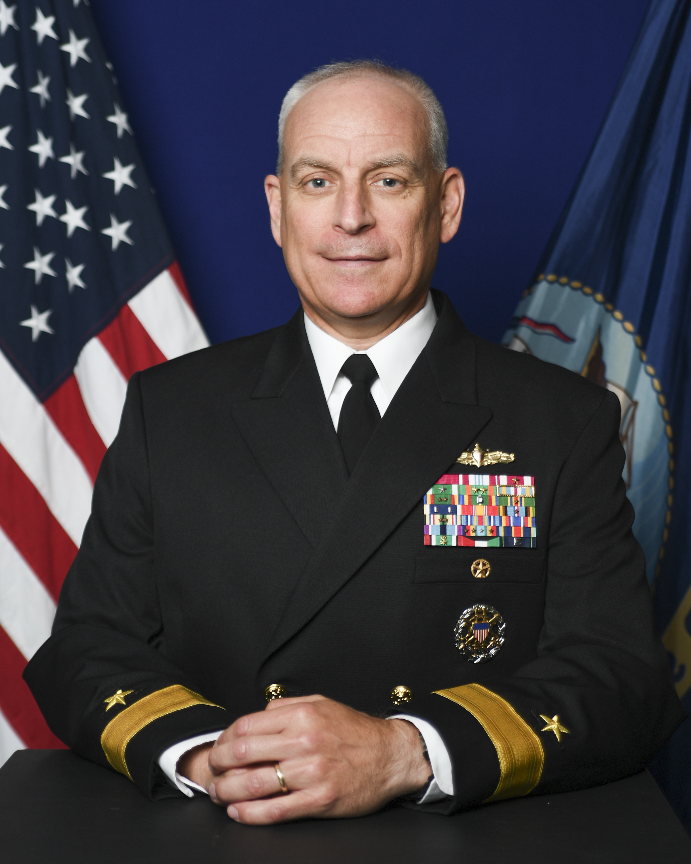 Rear Adm. Paul J. Schlise